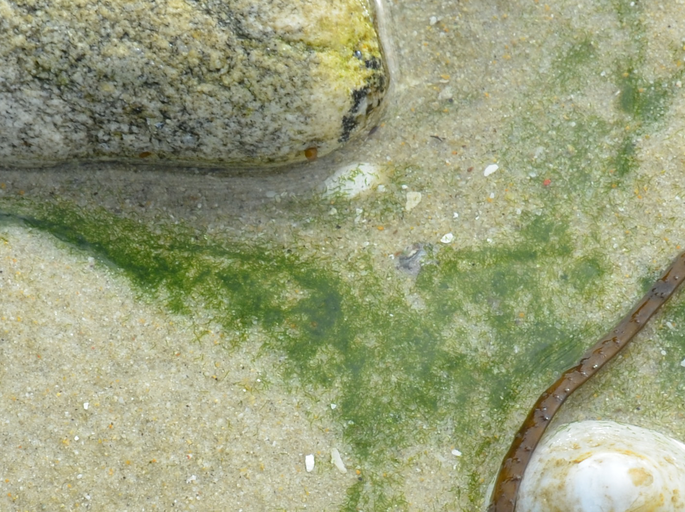 Symsagittifera roscoffensis sun-bathing in a puddle at low tide.